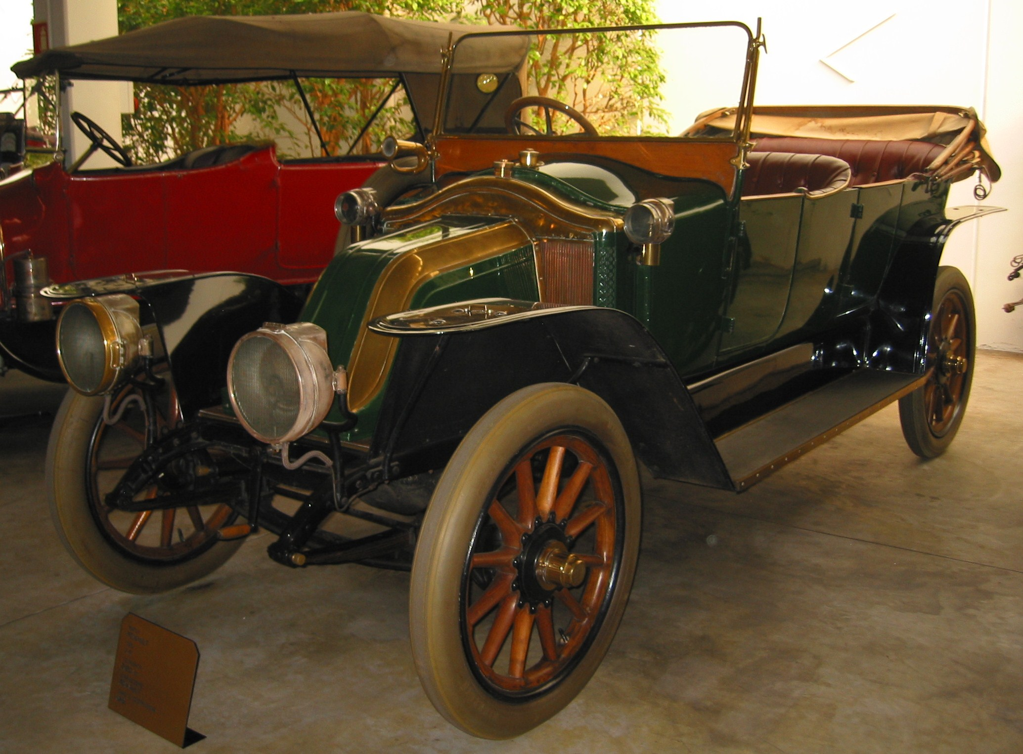 Renault Type FK Torpedo 1917-1918